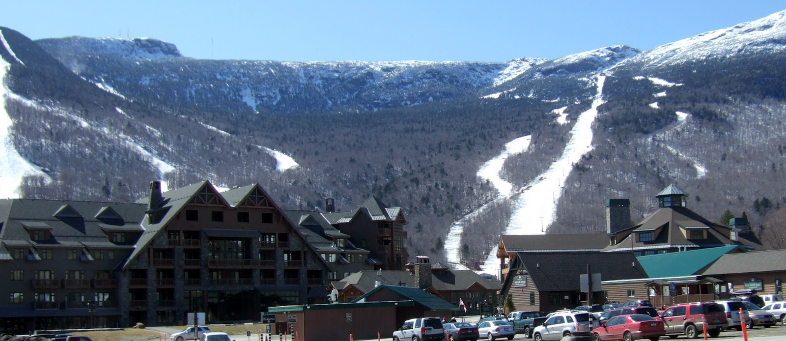 The new village under construction at the base of Stowe Mountain Resort, Vermont, USA.